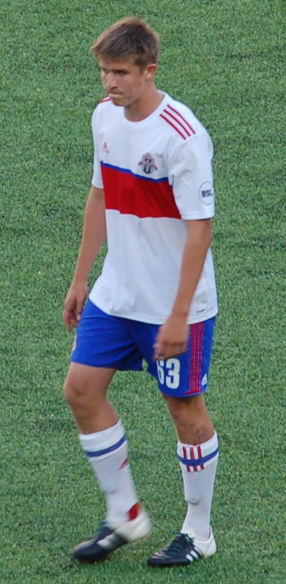 Liam Fraser (TFC) Taken during a match between FC Cincinnati and Toronto FC II at Nippert Stadium in Cincinnati on June 18, 2016.